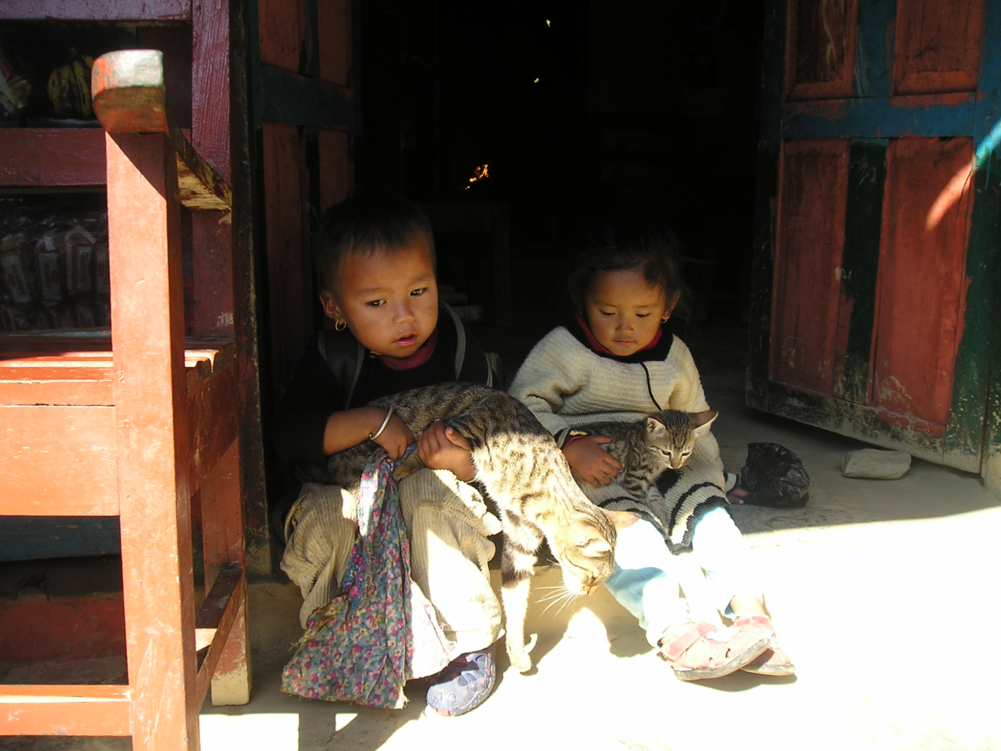 Two children playing with cats. Photo taken in Nepal.